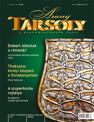 First edition of the Arany Tarsoly newspaper